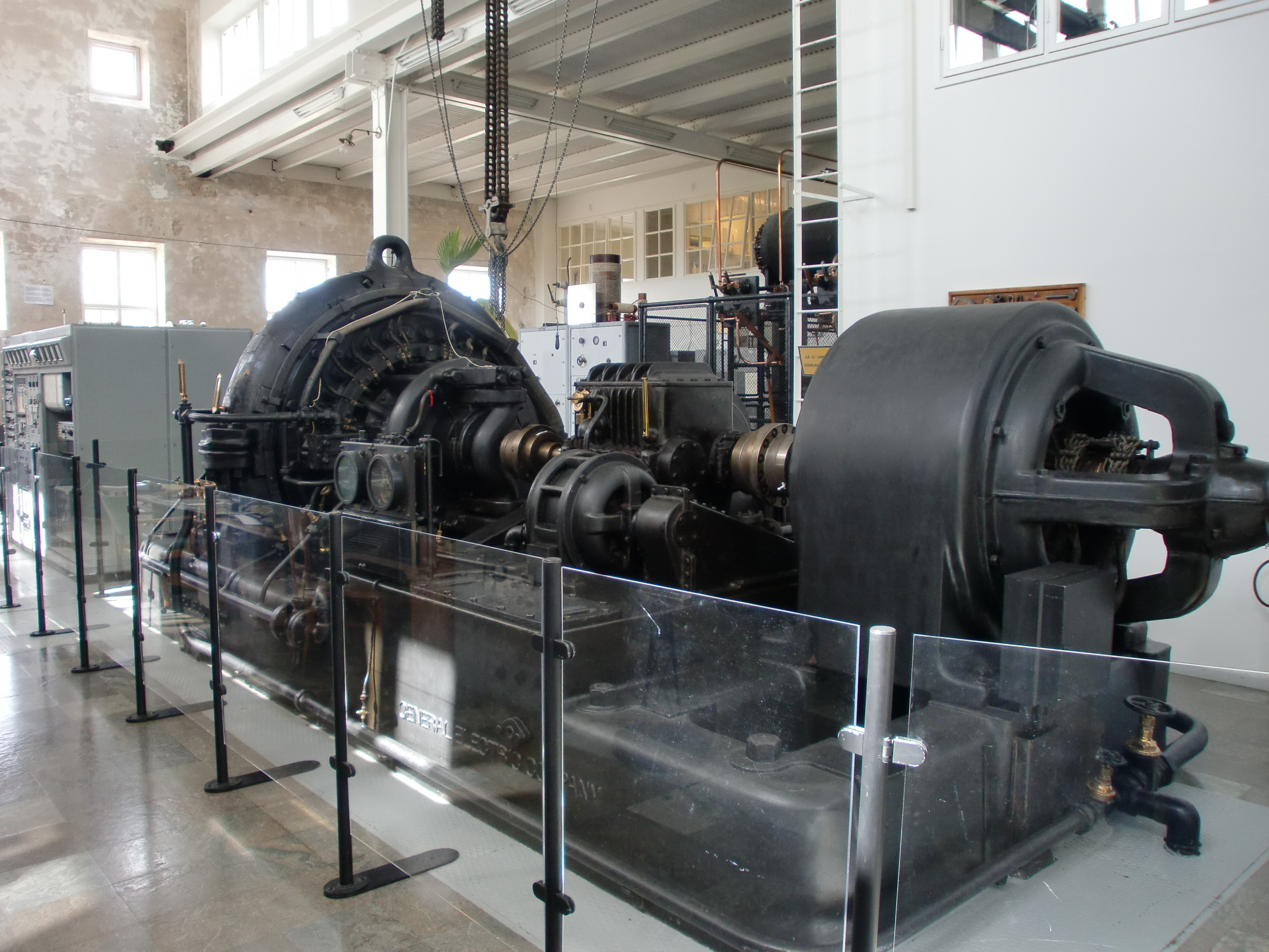 Alexanderson alternator an antique type of radio transmitter, placed in the main building of the Varberg radio station in Grimeton near Varberg, Sweden. This was a specialized AC electric generator which turned at an extremely high rate, generating radio waves. They were used between 1906 and the mid 1920s in very low frequency (VLF) radio stations, mostly operated by governments and navies, to broadcast long distances. They were very expensive, inefficient, and finicky to adjust, and were mostly replaced by vacuum tube transmitters by the 1930s.